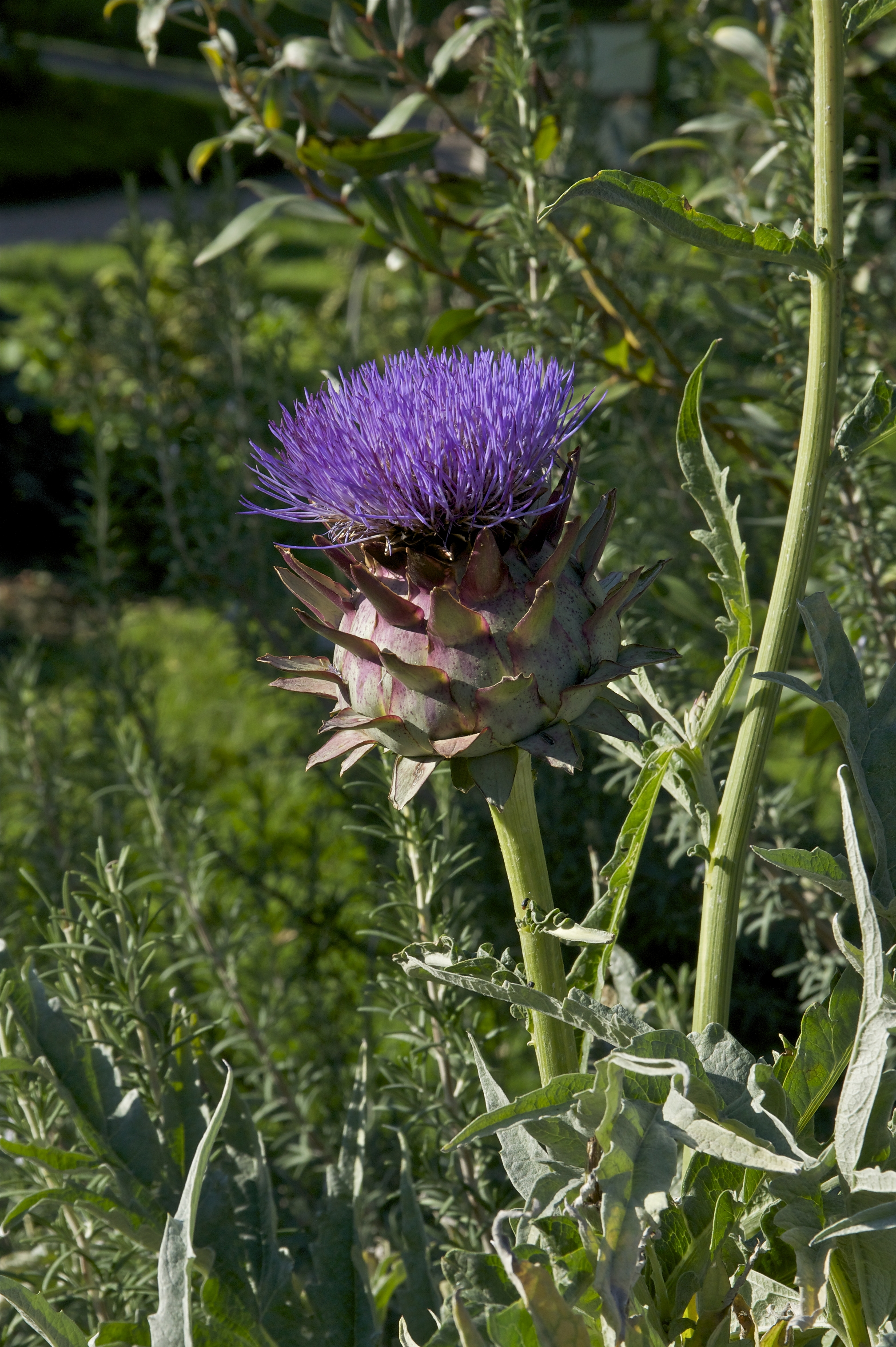 A flowering globe artichoke, Cynara scolymus. Jardin des Plantes, Paris.